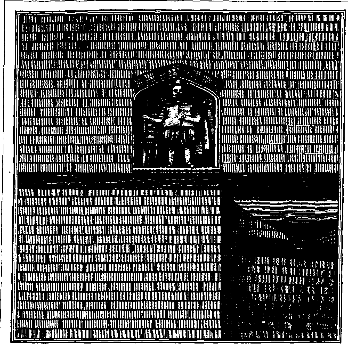 Fleuron from book: Antiquities of London and environs, engrav'd & publish'd by J. T. Smith, dedicated to Sir James Winter Lake, ... Containing many curious houses, monuments & statues, never before publish'd, and also from original drawings, communicated by several members of the Antiquarian Society, ...